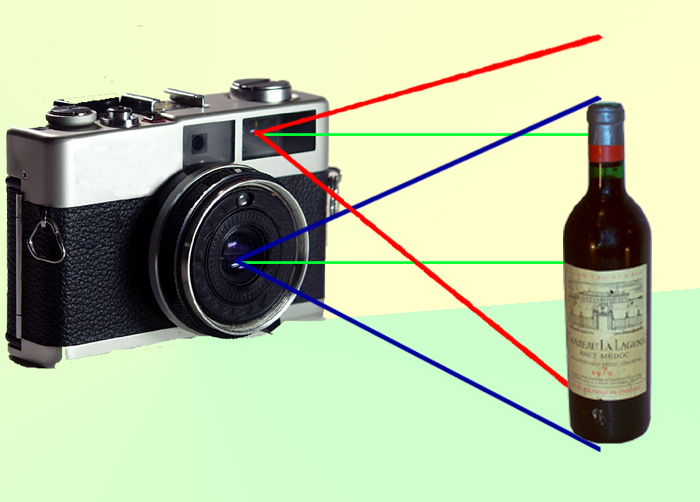 Composition. The original images are in commons